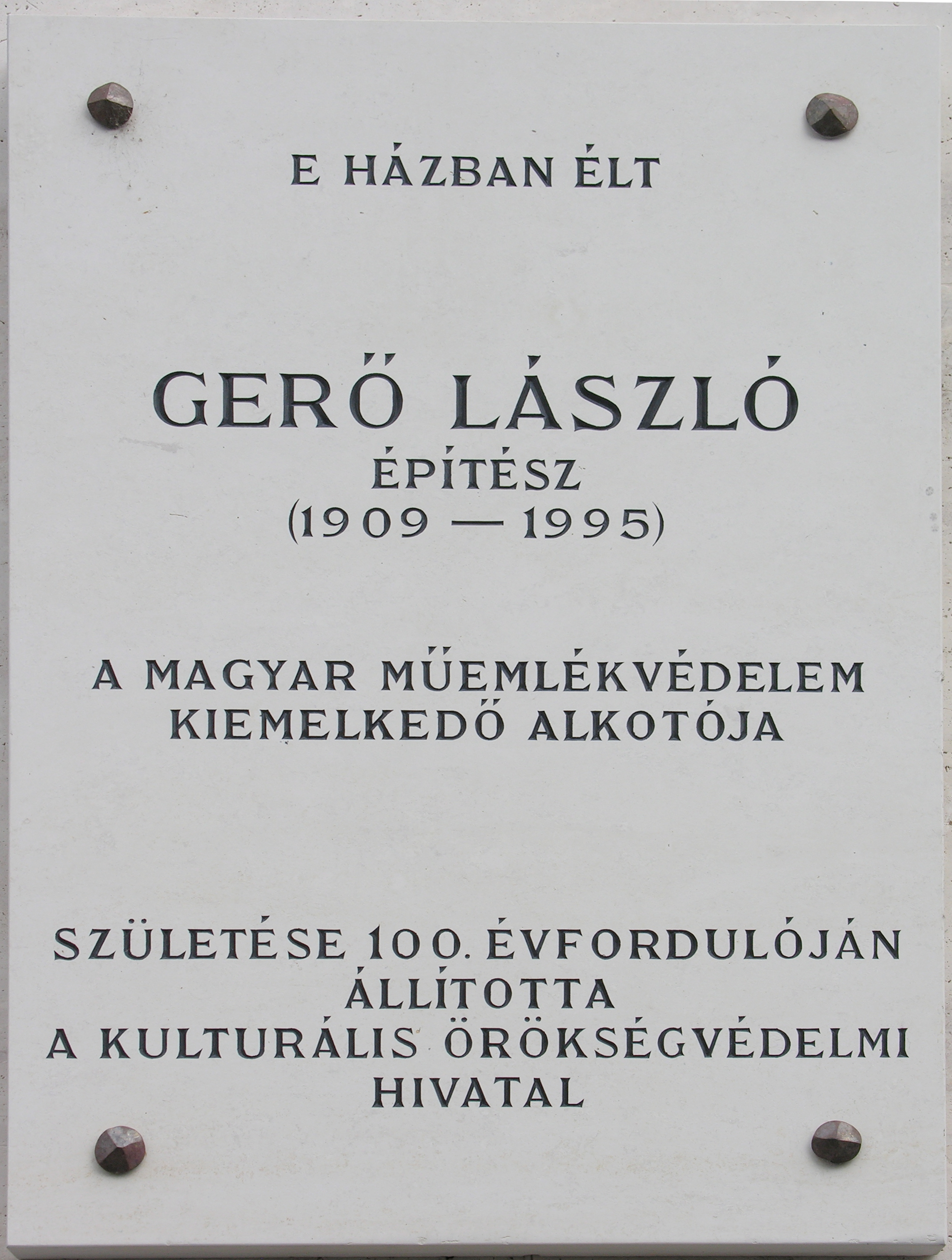 Commemorative plaque of László Gerő architect, Budapest District V, Petőfi Square No 3-5